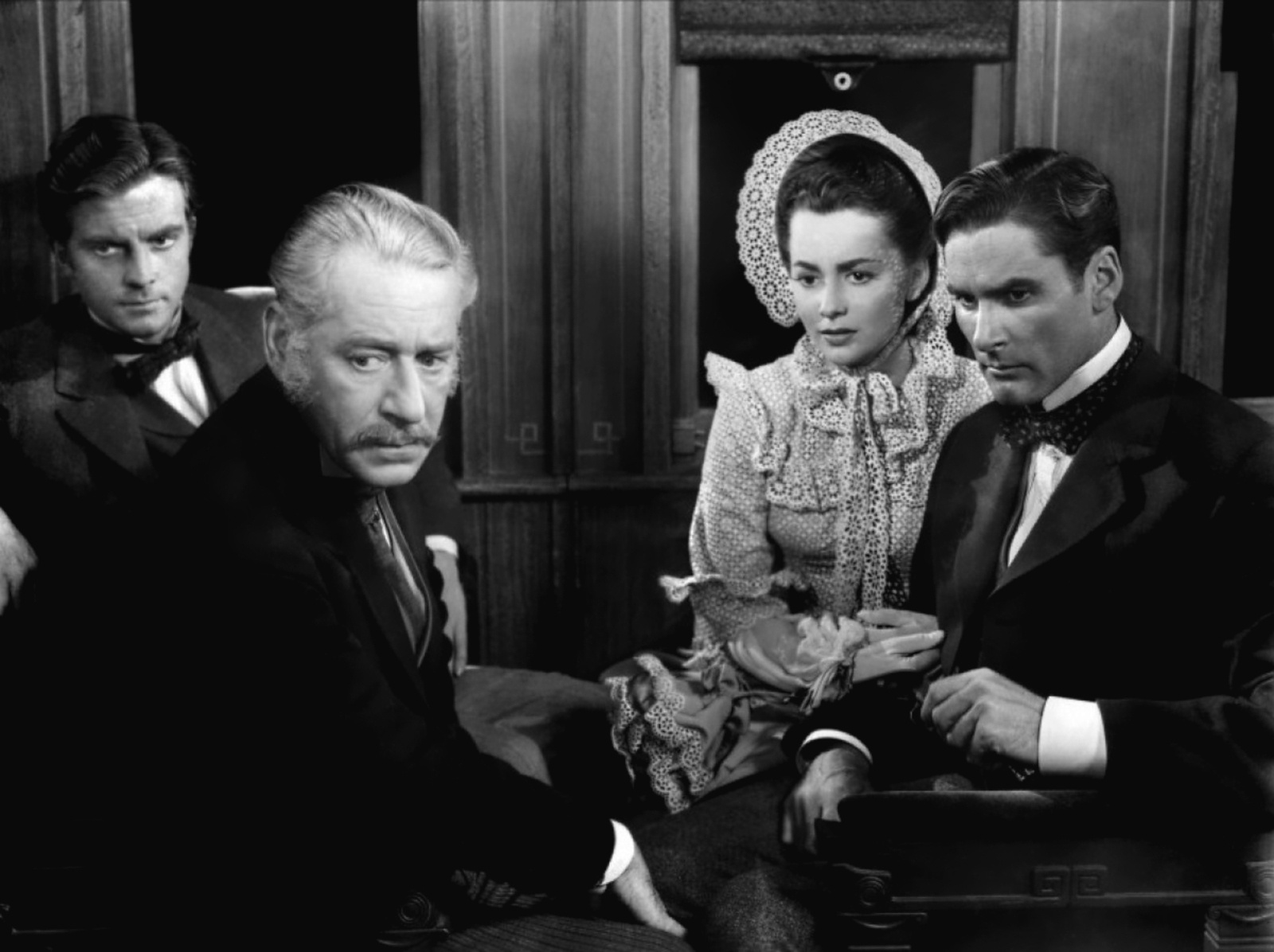 L. to R. : William Lundigan, Henry O'Neill, Olivia de Havilland & Errol Flynn in Santa Fe Trail (1940)